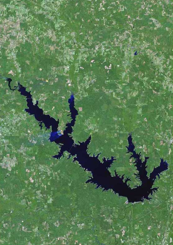 The raw satellite imagery shown in these images was obtain from NASA and/or the US Geological Survey. Post-processing and production by Sam Rayburn Resevoir, Texas, from Space